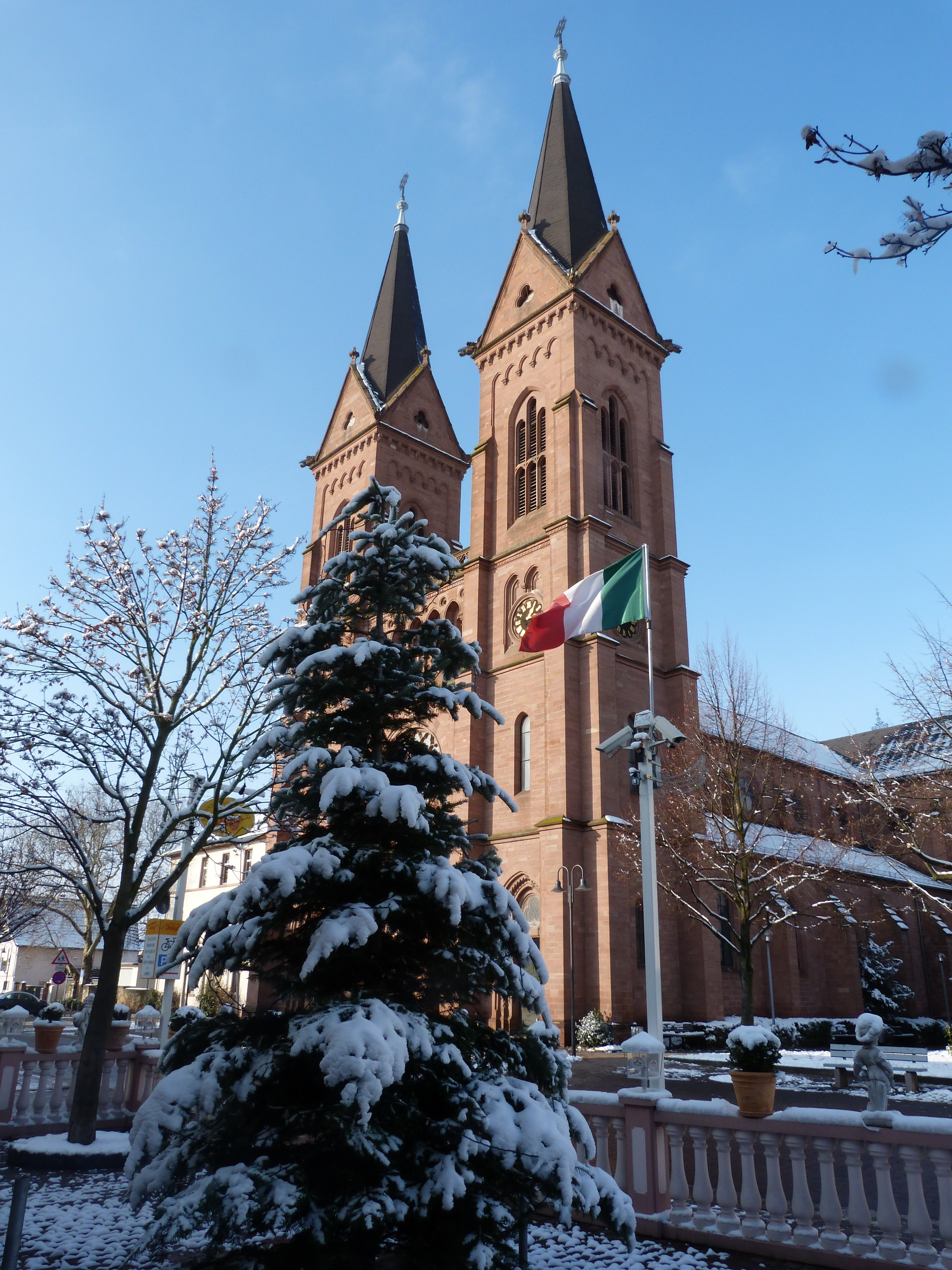 Catholic church St. Bartholomäus in Biblis, Germany.